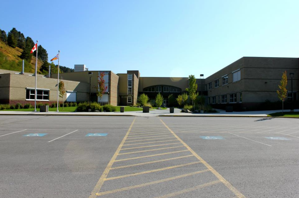 J. Lloyd Crowe Secondary (commonly referred to "JL Crowe"), a public high school in Trail, British Columbia, part of School District 20 Kootenay-Columbia. This new facility was built in 2010, after the demolition of the older school.